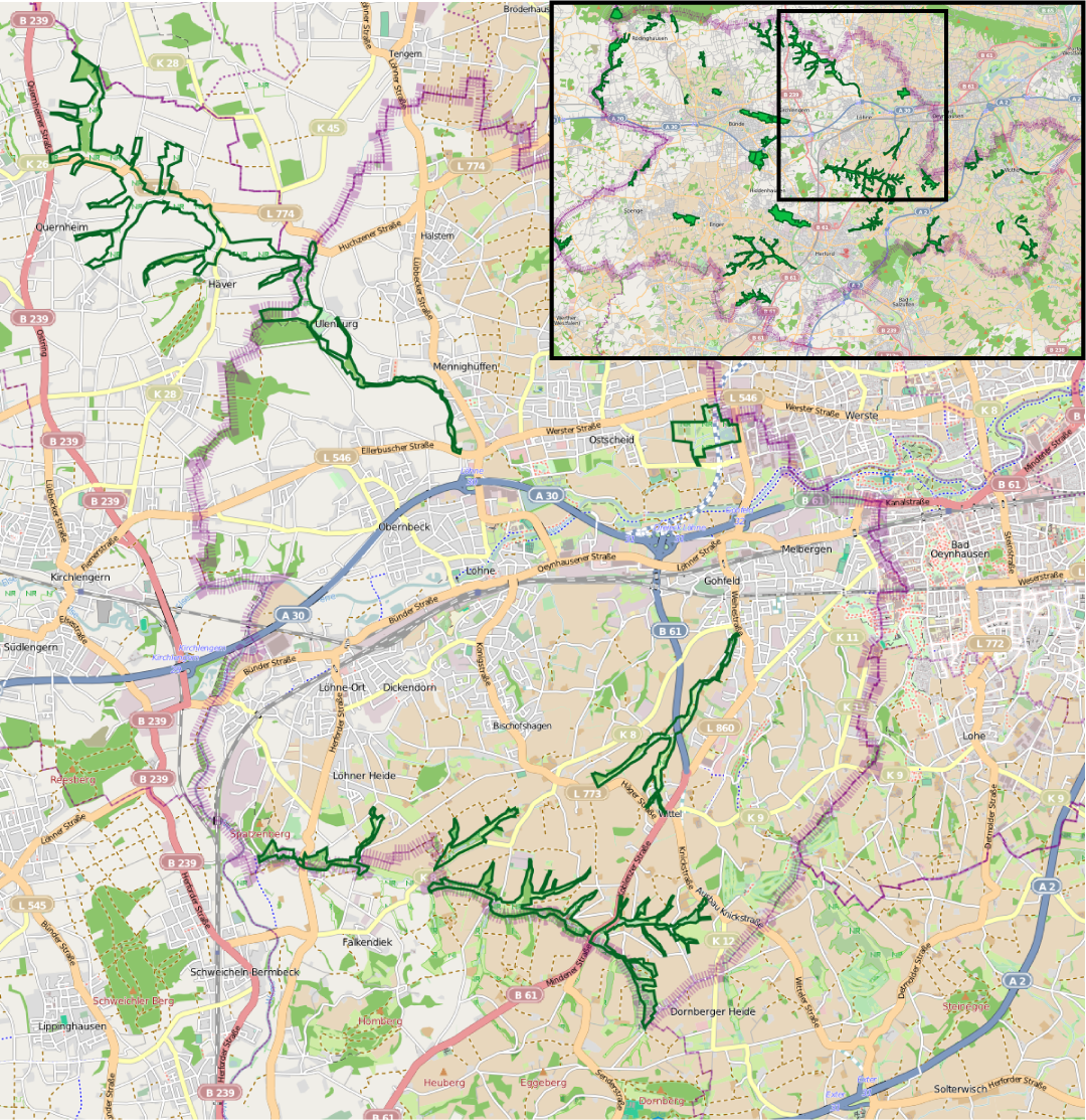 Nature reserves in Löhne - overview map Number and borders of nature reserves are subject to frequent change. In order to facilitate reproduction of this map from openstreetmap, the following data is stored here: export boundaries: north: 52.26; west: 8.63; east: 8.82; south: 52.14; mapnik svg, scale 1:90.000 nature reserve boundary stroke weight 3.5; nature reserve stroke color: R 5, G 102, B 36; district border stroke weight: 20